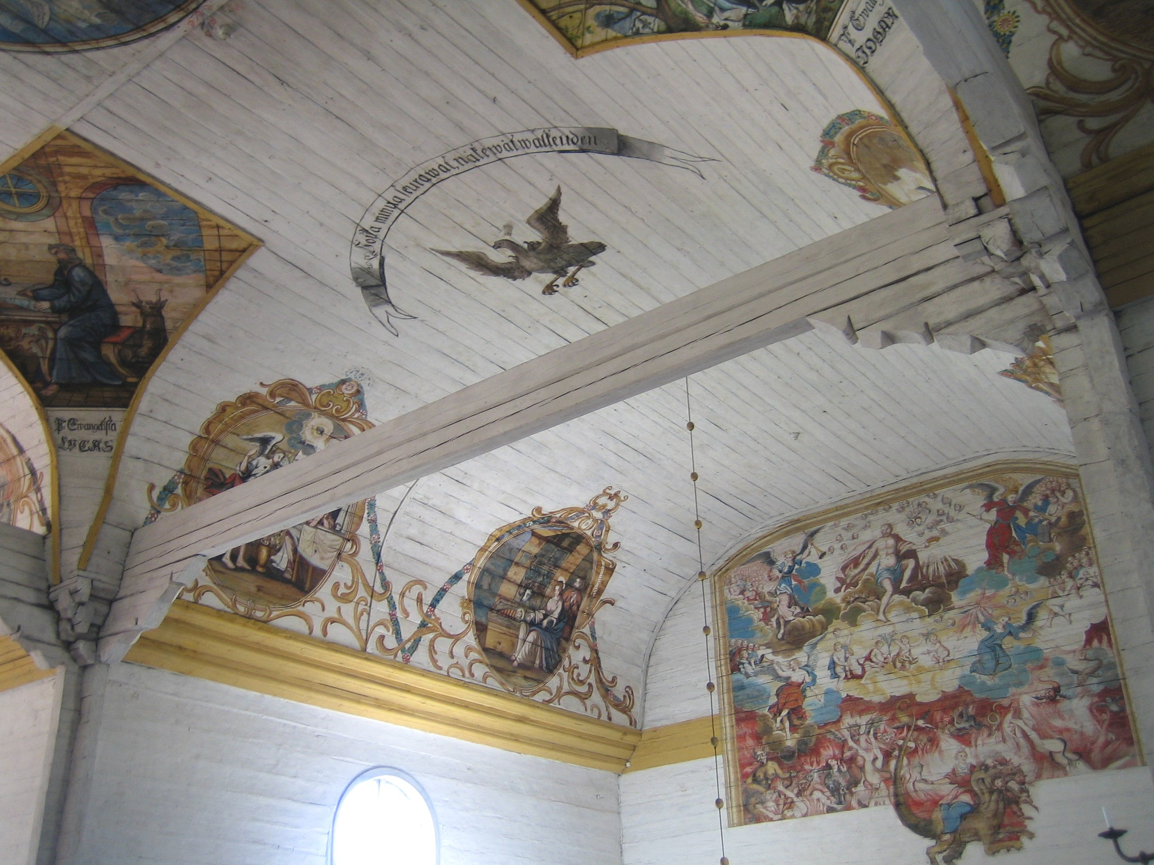 Interior of Paltaniemi Church in Kajaani, Finland